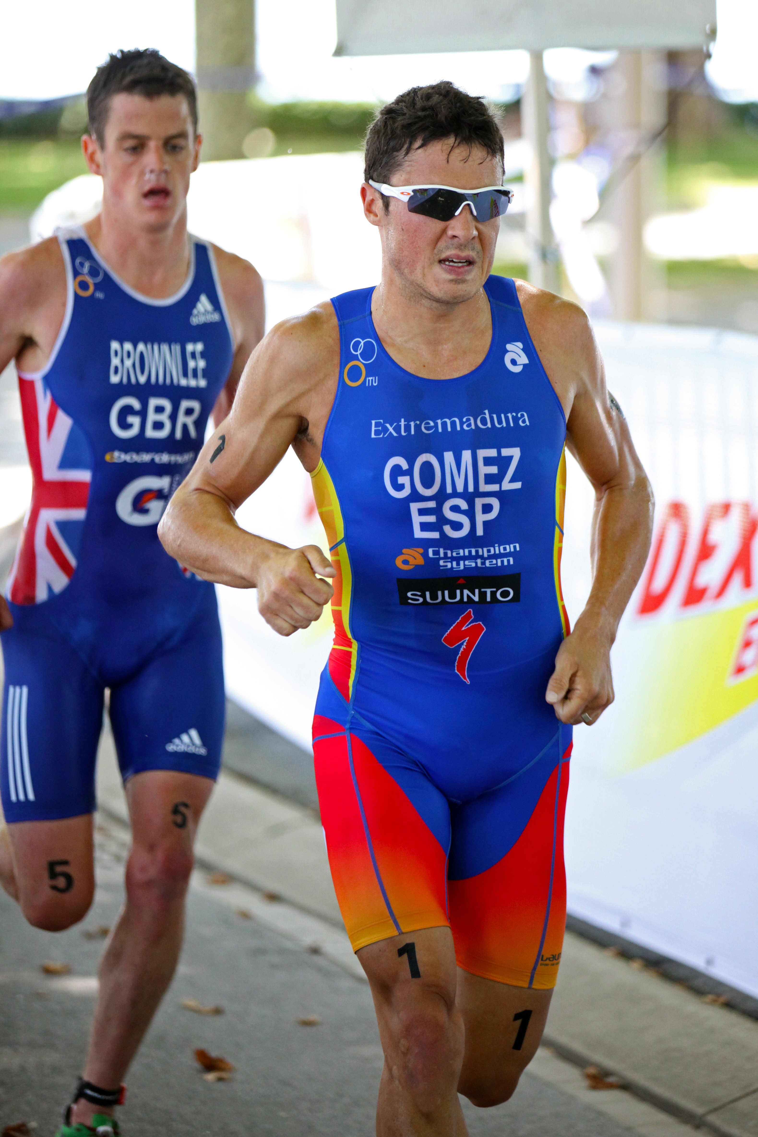 Francisco Javier Gomez at the Sprint World Championship in Lausanne.